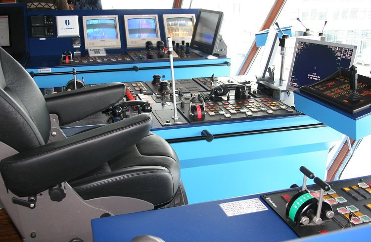 Bridge of the Abeille Bourbon tug, on 2005-04-08.